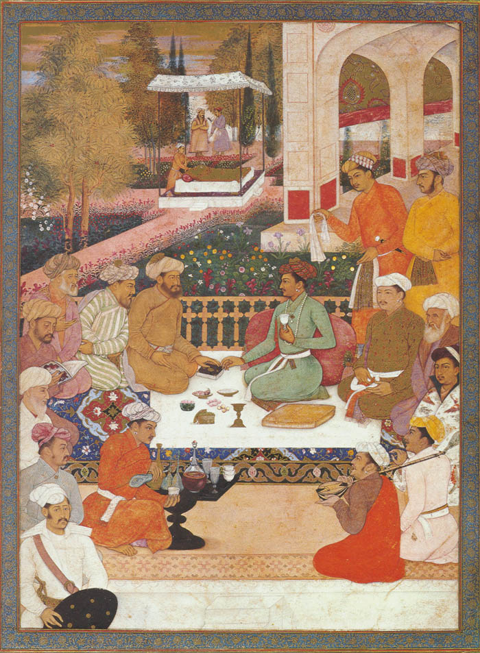 Dara Shukoh with philosophers, painted by Bichitr Source: Imperial Mughal Painting, by Stuart Cary Welch (New York: George Braziller, 1978), p. 111; scan by FWP, Sept. 2001 "To prevent a repetition of his own and his father's rebellions against imperial parents, the emperor kept Dara close to the throne. In consequence, he was able to pursue artistic and theological interests. Like Akbar, he was fascinated by Hinduism and he translated Hindu texts, discoursed with holy men, and may well have been the patron of portraits of them.... Bichitr painted the prince with learned and talented friends at the height of his power, when poetry, music, and serious conversation were his chief concerns. The prince and his guests are eminently aristocratic. The setting verges on paradise: a garden fragrant with flowers and a platform covered with superb carpets. A servant offers wine, others await attentively, and in the distance a bed is prepared for Dara's rest after the party. Bichitr describes all this with his usual masterfulness, delighting in such passages as the reflections on glass, transparency of wine, and cast shadows. The curving fingers of the soldier in the foreground are a minor but telling clue to his style." (p. 110)